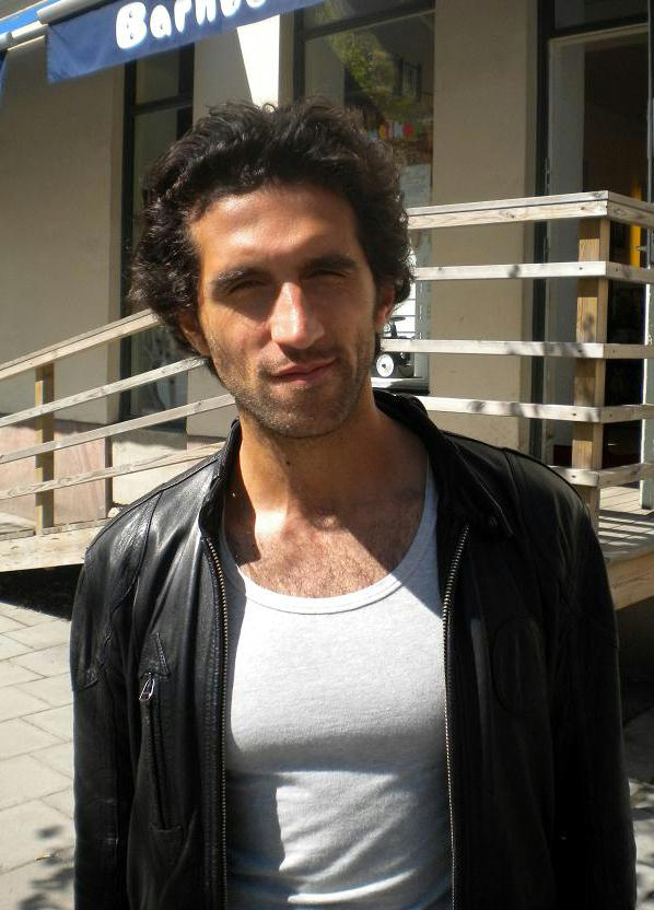 Swedish actor-director Josef Fares, as released by image creator CabarEngPlace: Corner of streets Götgatan & Åsögatan, Stockholm, Sweden